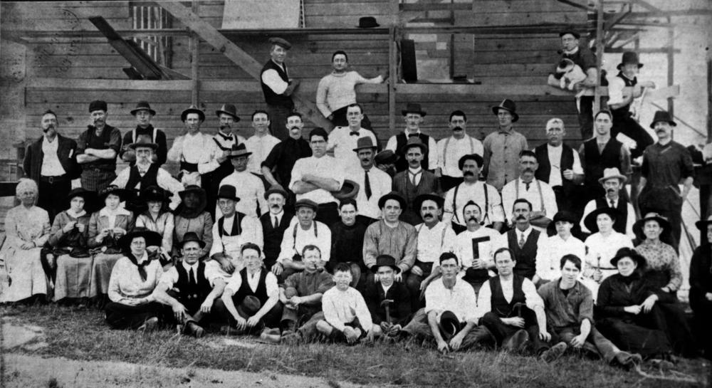 Anzac workers involved in building cottages for returned soldiers at Enoggera, 1917 Caption on photo: The Anzac workers who are building cottages on Sundays for returned soldiers (at Enoggera).